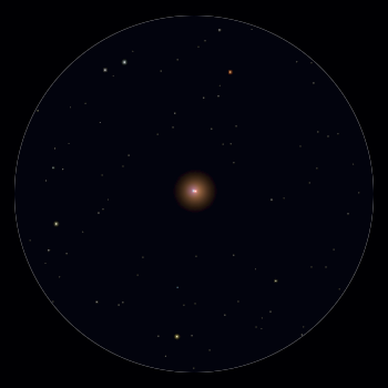 Alamach